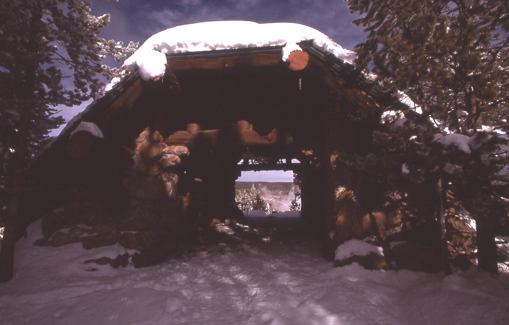 Norris Museum, Yellowstone National Park, Wyoming, USA, in winter